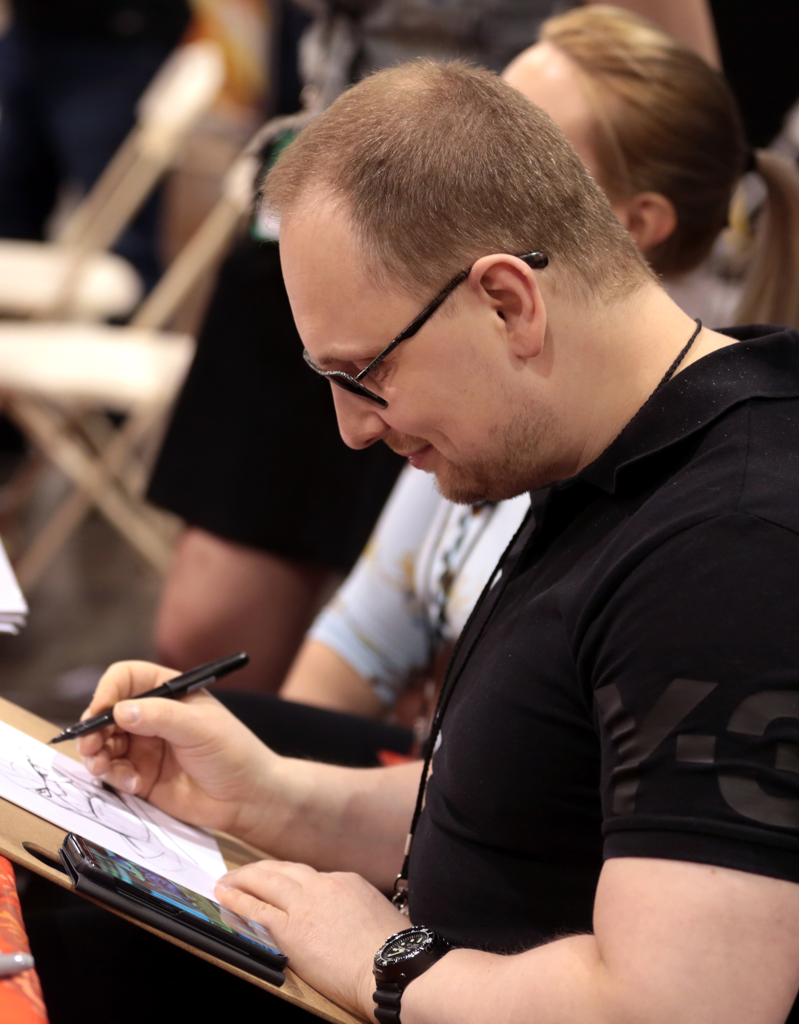 Adi Granov speaking at the 2018 Phoenix Comic Fest in Phoenix, Arizona.